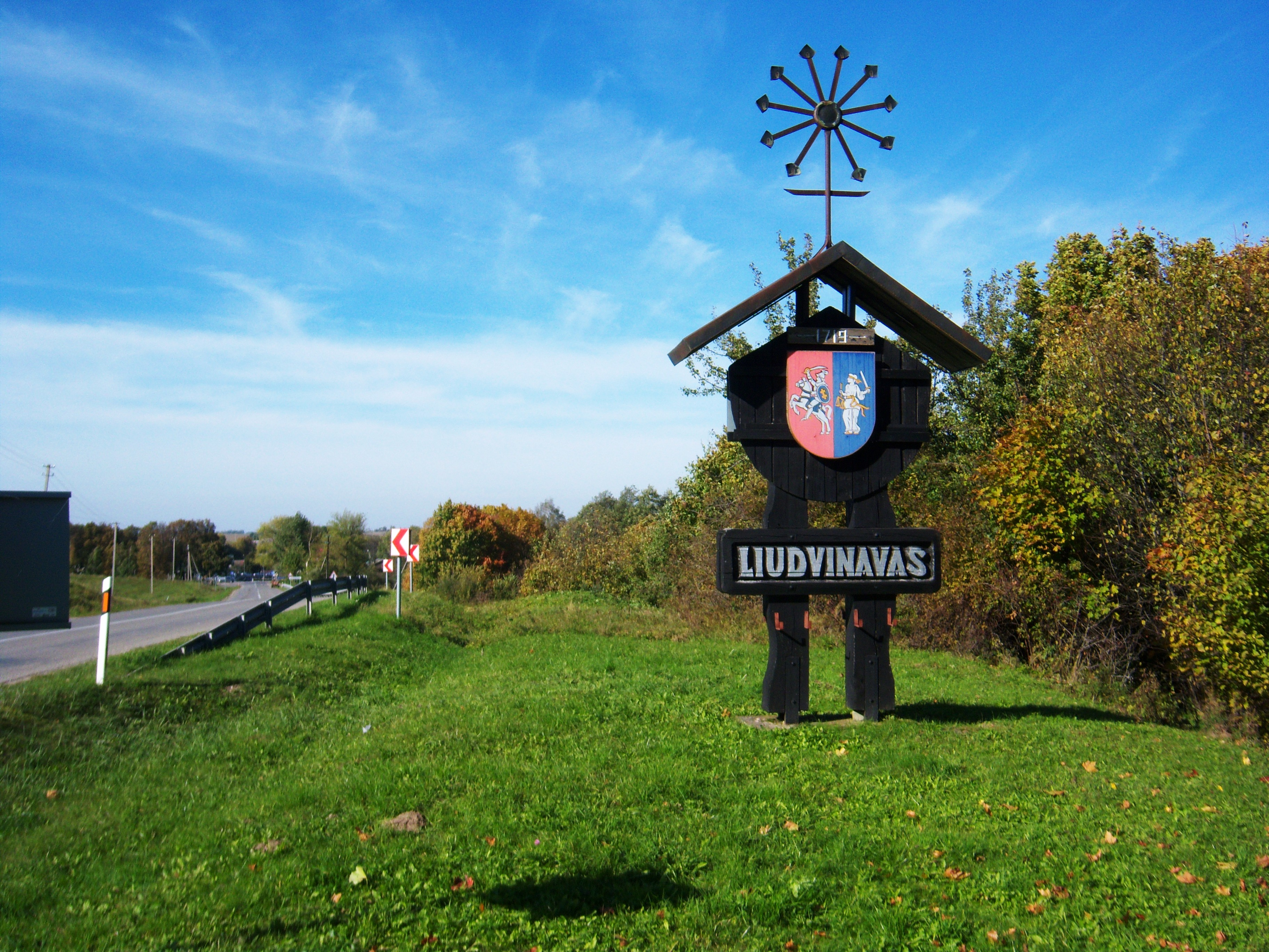 Liudvinavas, Marijampolė Municipality, Lithuania